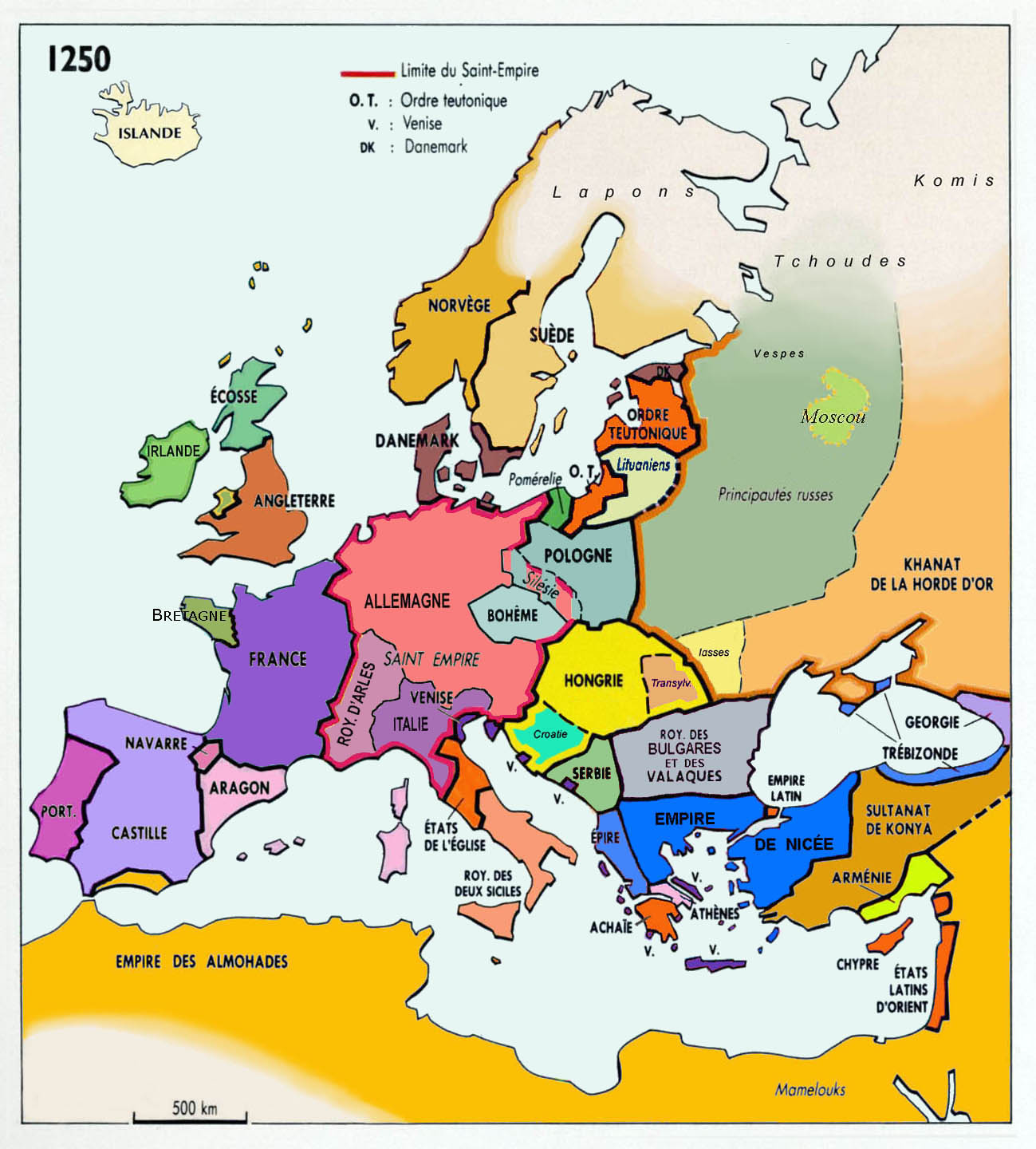 Map of Europe, year 1250 (french language)